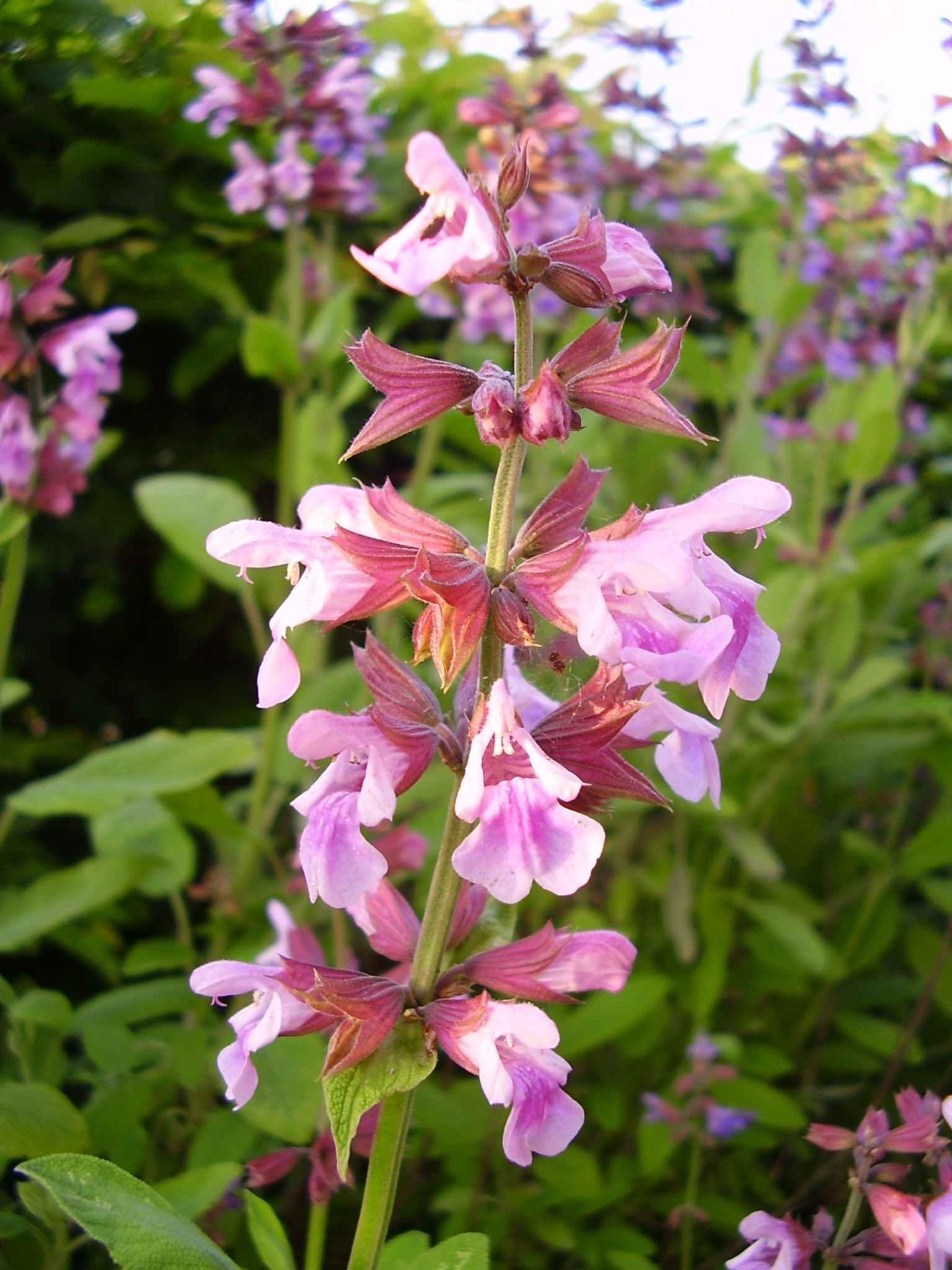 Salvia officinalis